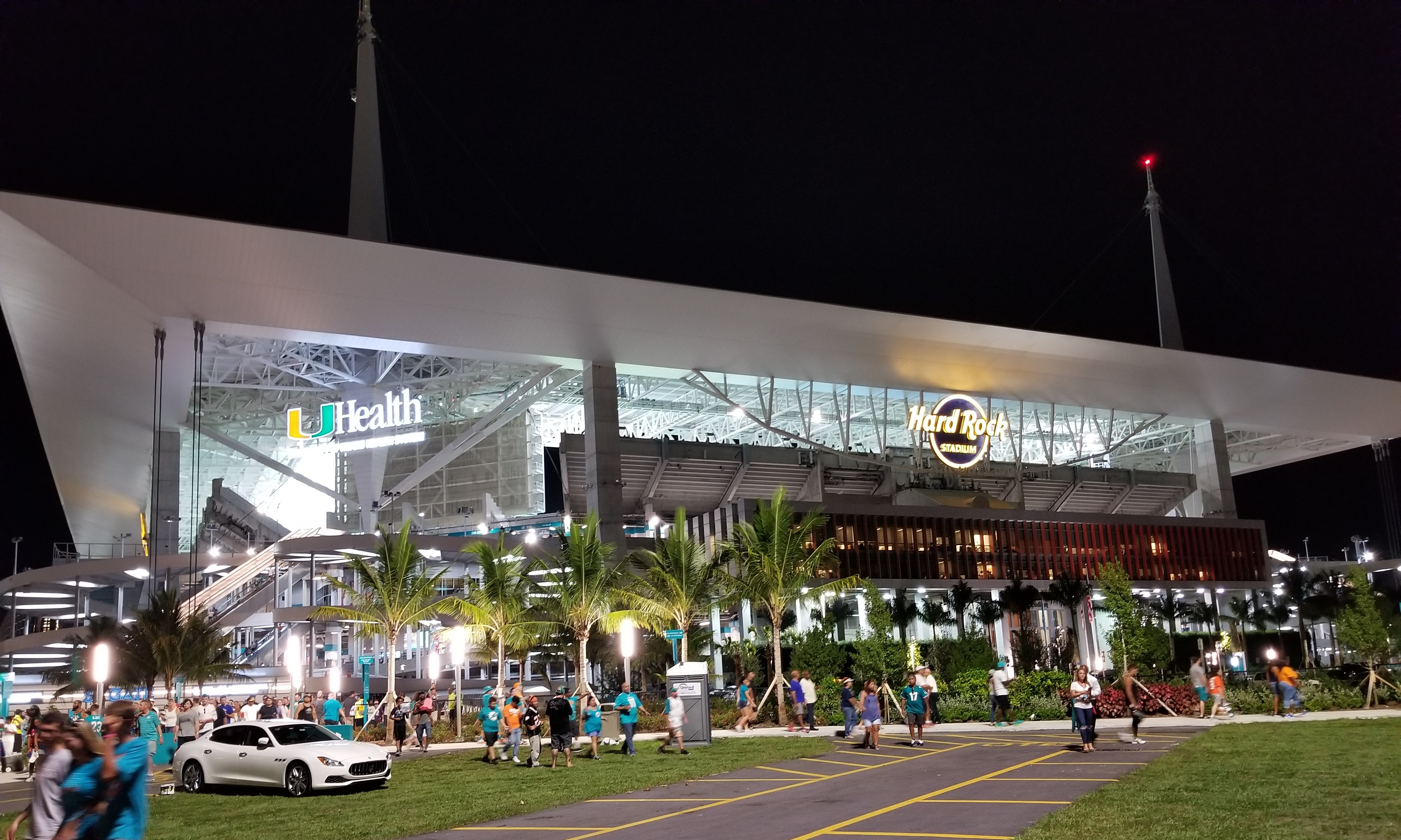 Hard Rock Stadium, August 2017, Miami Gardens, Florida Home football field for Miami Dolphins (NFL) and Miami Hurricanes (NCAA)